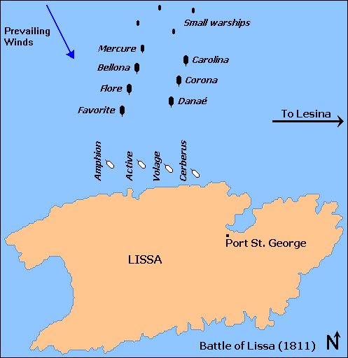 Map of the Battle of Lissa in 1811 of the island of Lissa (modern Vis), between British and French / Venetian forces. Outline of the island from a public domain original map, generated at OMC (which uses GMT,[1] an open source software licensed under GNU GPL[2]). Positions of ships are approximate and not to scale relative to the island and are taken from William James book here [3] and James Henderson's book.